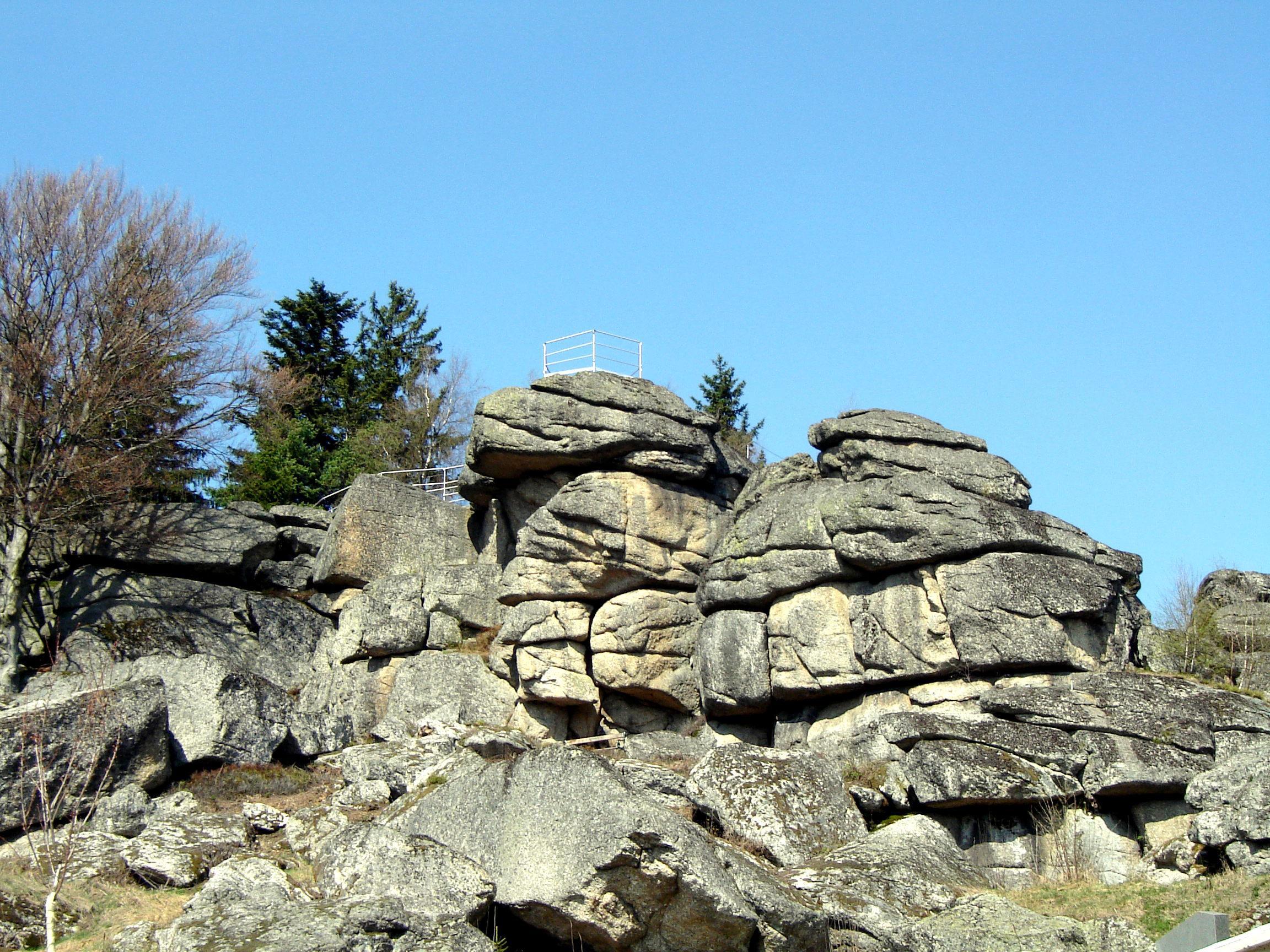 the Wachtstein (948 meters above sea level) in Traunstein, Austria